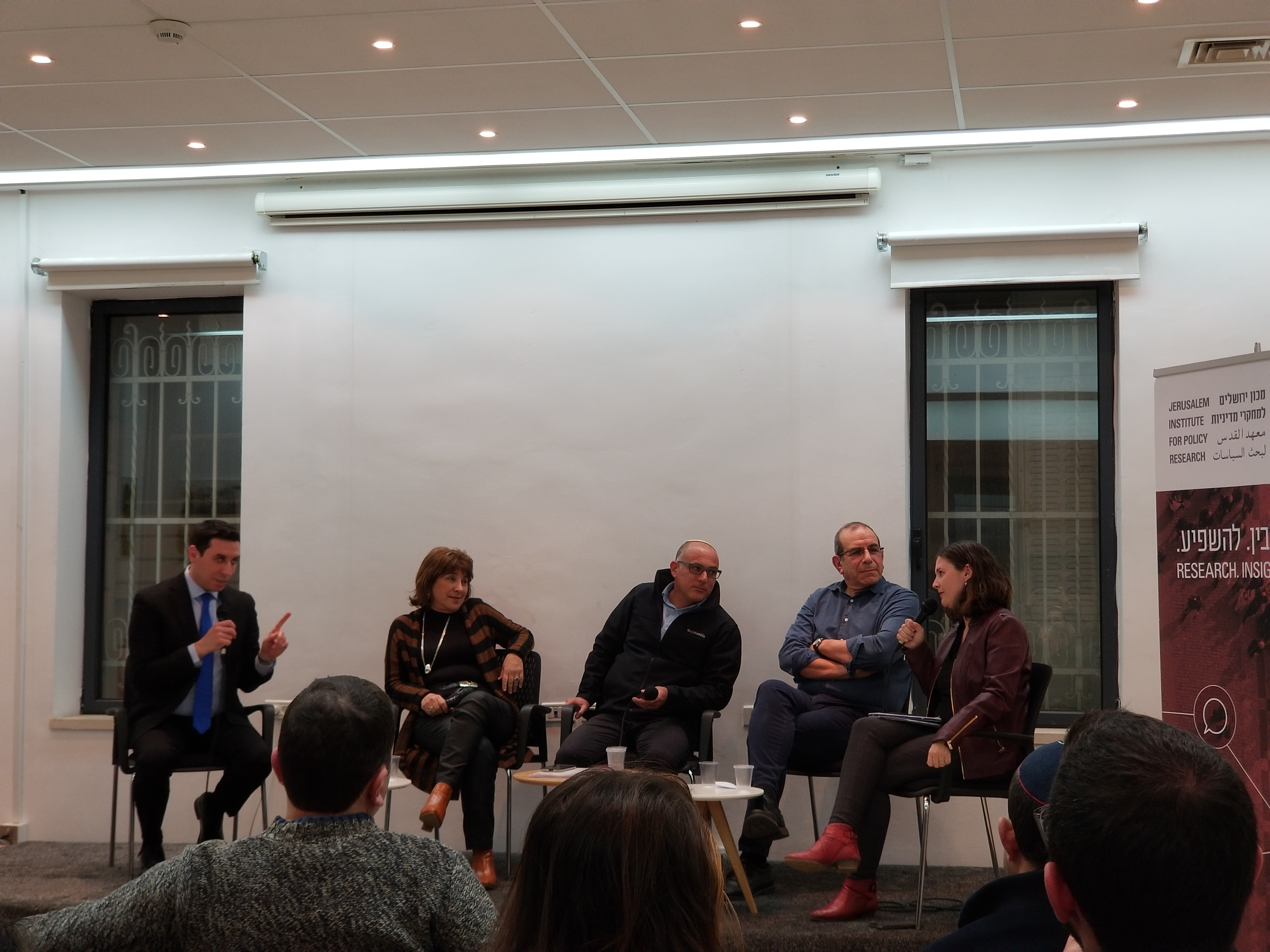 מימין: שרה העצני כהן, יגאל דילמוני, גלעד שר, טליה ששון, ואטילה שומפלבי